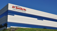 Photo of the outside of the Sir Speedy corporate office building